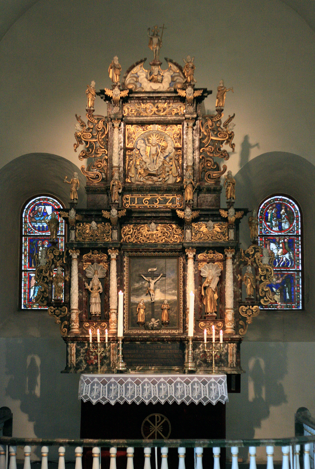 Altar piece, 1652, Stange church, Norway.